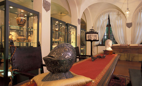 Casa Museo Ivan Bruschi, Arezzo